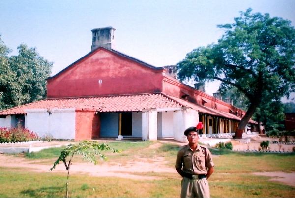 Coordinates of location (Jalandhar, Punjab, India): 31.32° N 75.58° E (shot in 2005AD) This image has been shot personally by me, Gopal Aggarwal( (in ceremonial uniform) with my Kodak KB10 camera. Military Info: Army Attachment Camp, under 2 SIKHLI, Near Sansarpur Jalandhar Cantt. In respect to , I allow non-commercial as well as commercial usage, with the attribution to the rightful owner: together with the CC Attribution ShareAlike 2.5